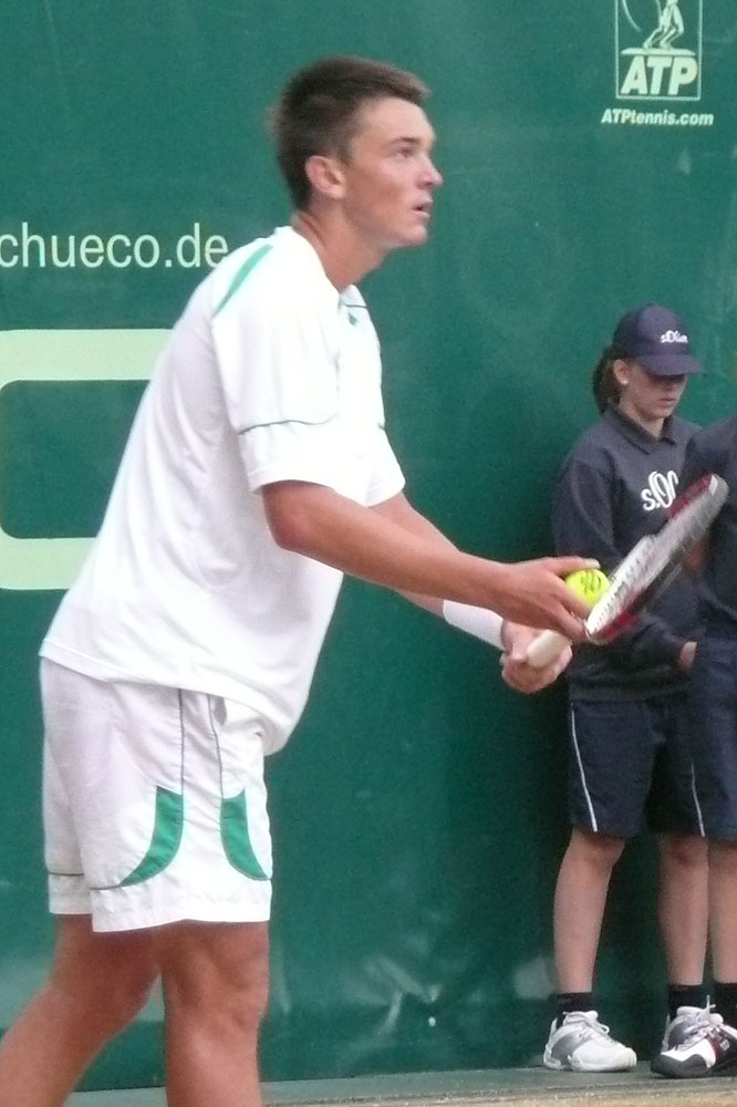 Gerry Weber Open 2008 - Court 1, Andreas Beck - Mischa Zverev